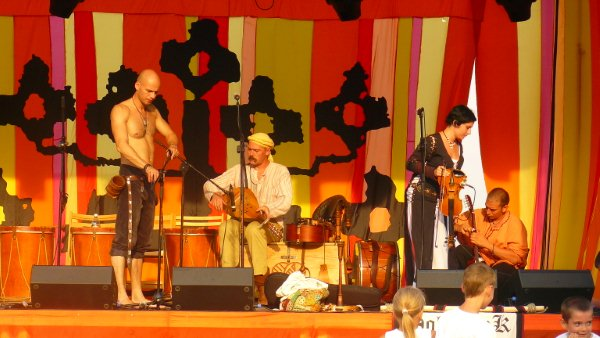 Jagiellonian Trades